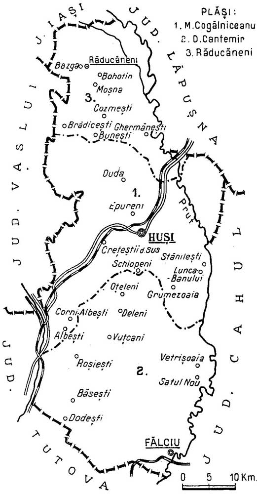 Map of Fălciu interwar county, Kingdom of Romania (1938).